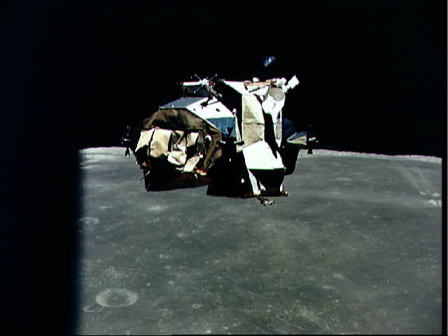 Apollo 16 lunar module.